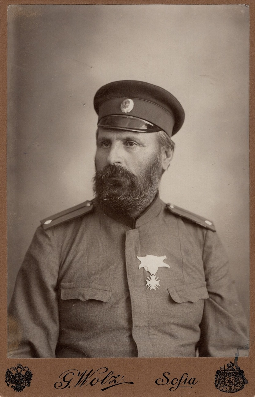 Natanail Yankov Zagorichani